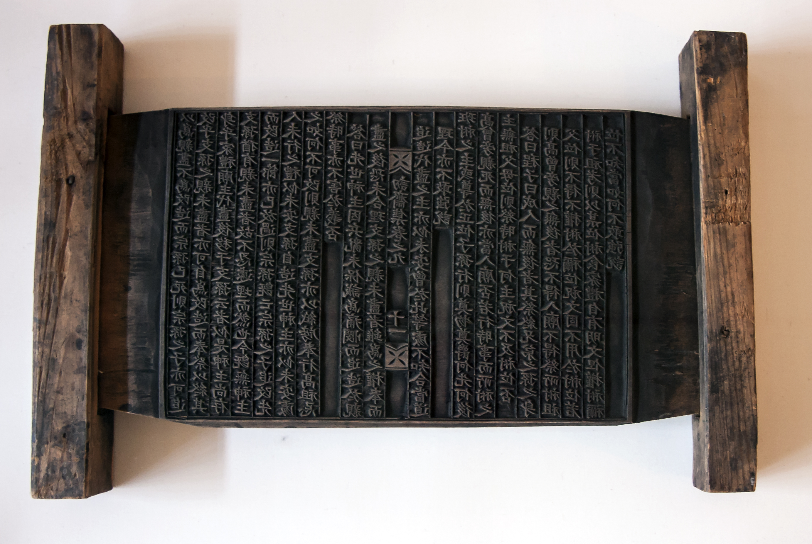 Korean wood printing block from the 19th century, on display at the British Museum in London.